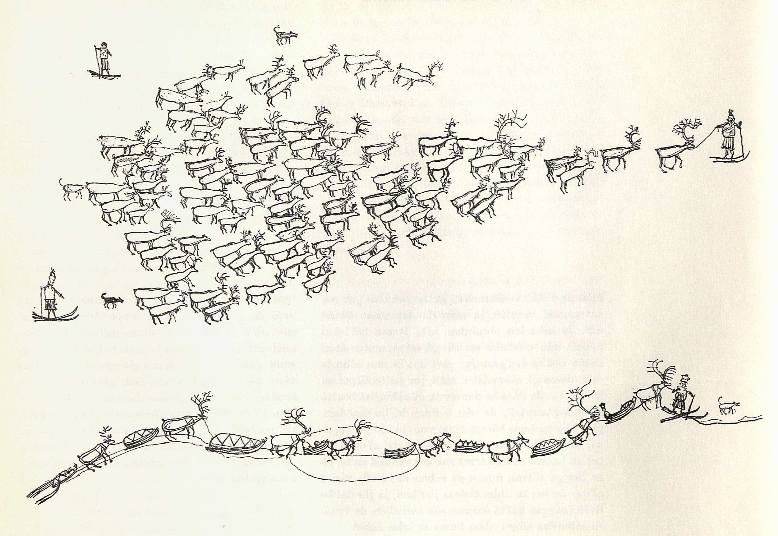 Raindeer "Rajd" by Johan Turi